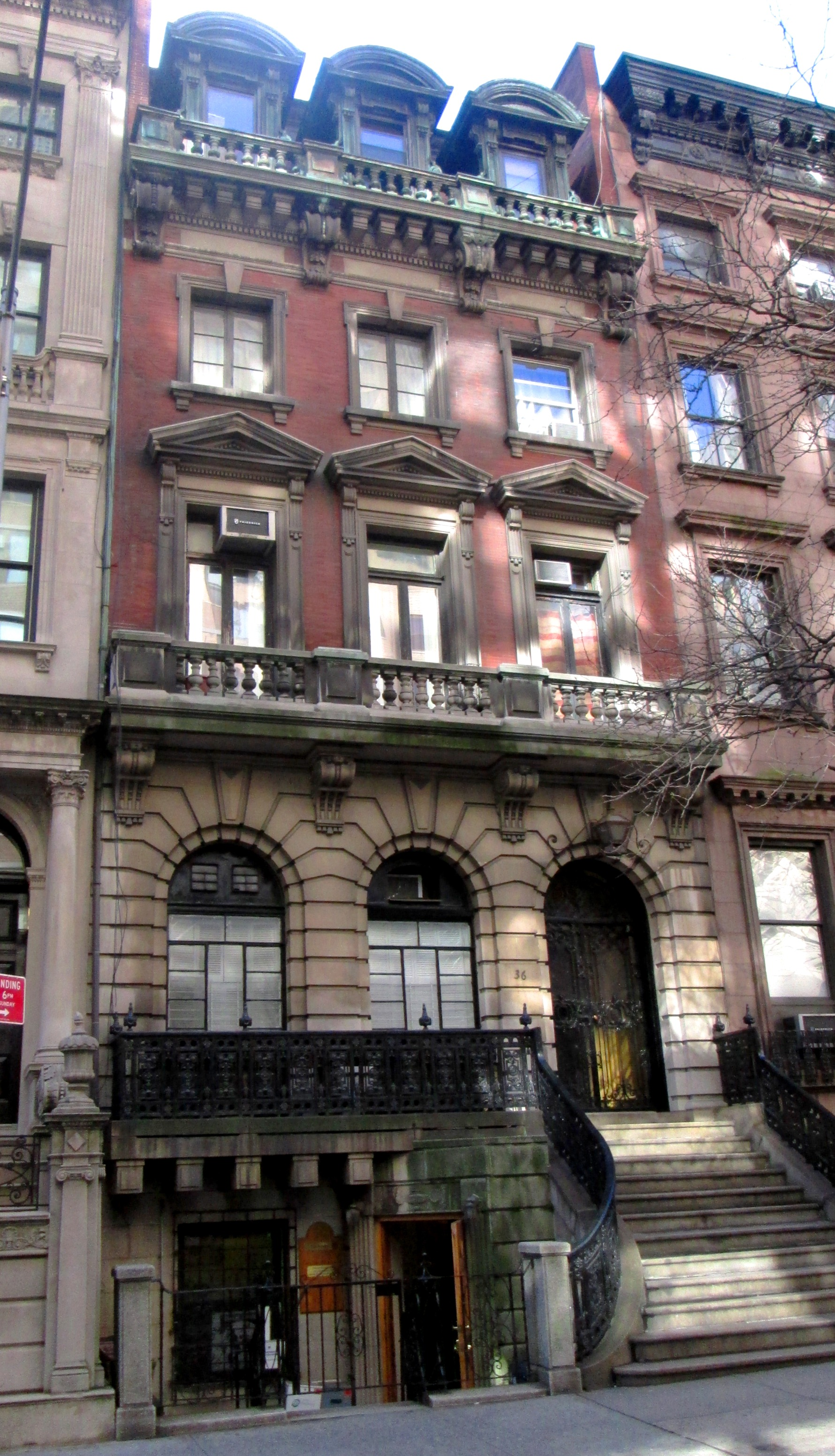 The Middleton S. and Emilie Neilson Burrill House at 36 East 38th Street between Madison and Park Avenues in the Murray Hill neighborhood of Manhattan, New York City was built c.1862 and was designed by Francis L. B. Hoppin & Terence Koen in the Beaux-Arts style. It was designated a NYC landmark in 2010. (Source: [1])